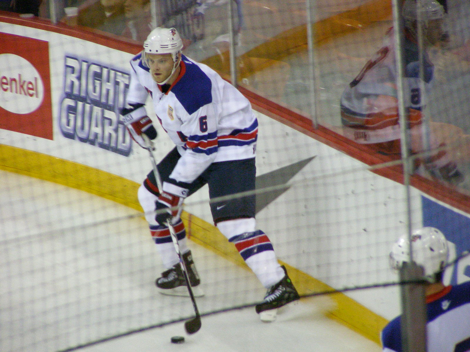 United States defenseman Tim Gleason plays against Latvia during the 2008 IIHF World Championship